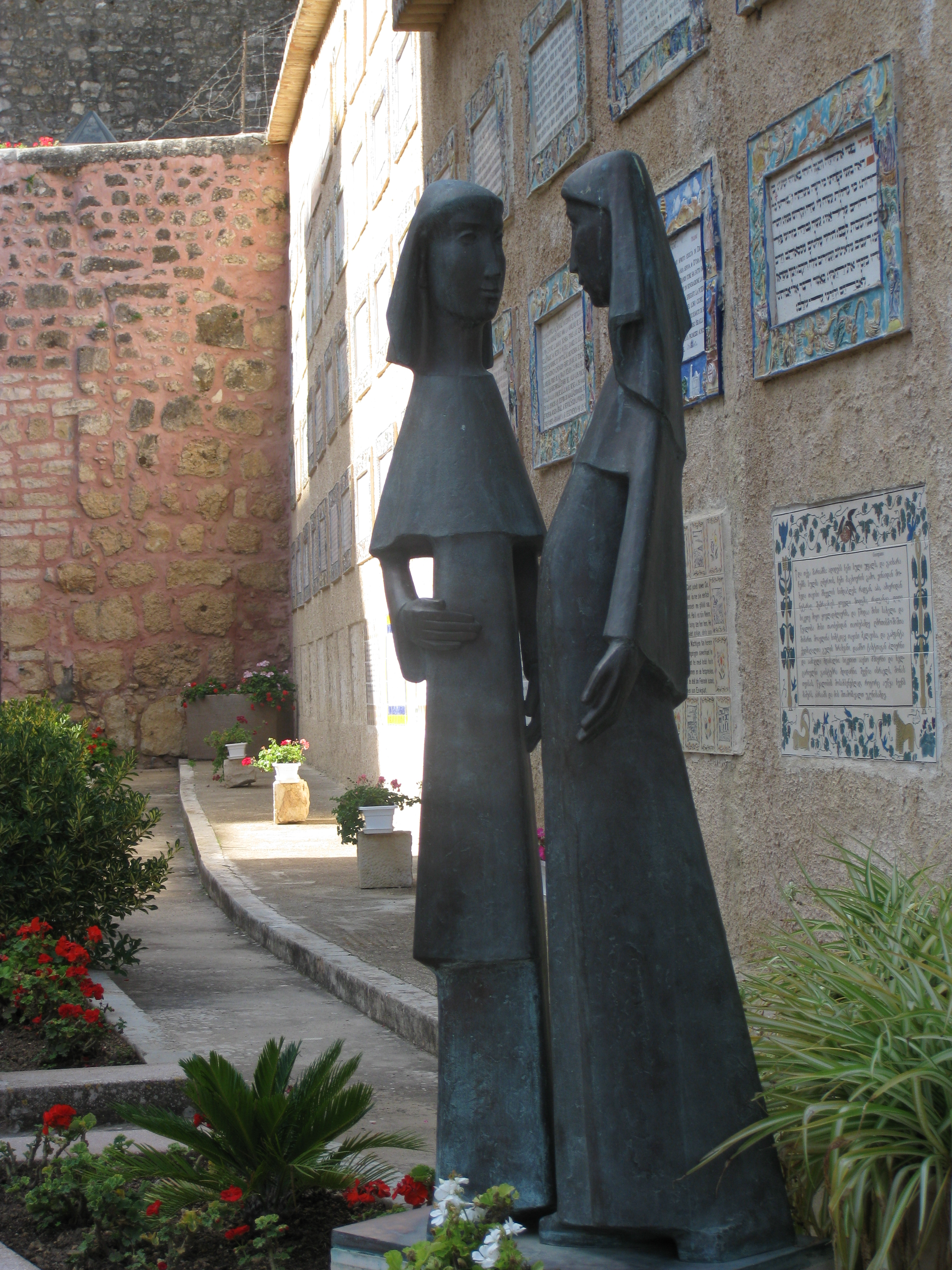 Church of the Visitation